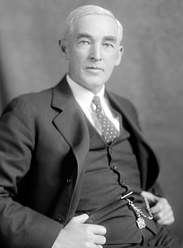 William J. Driver, US Representative from Arkansas